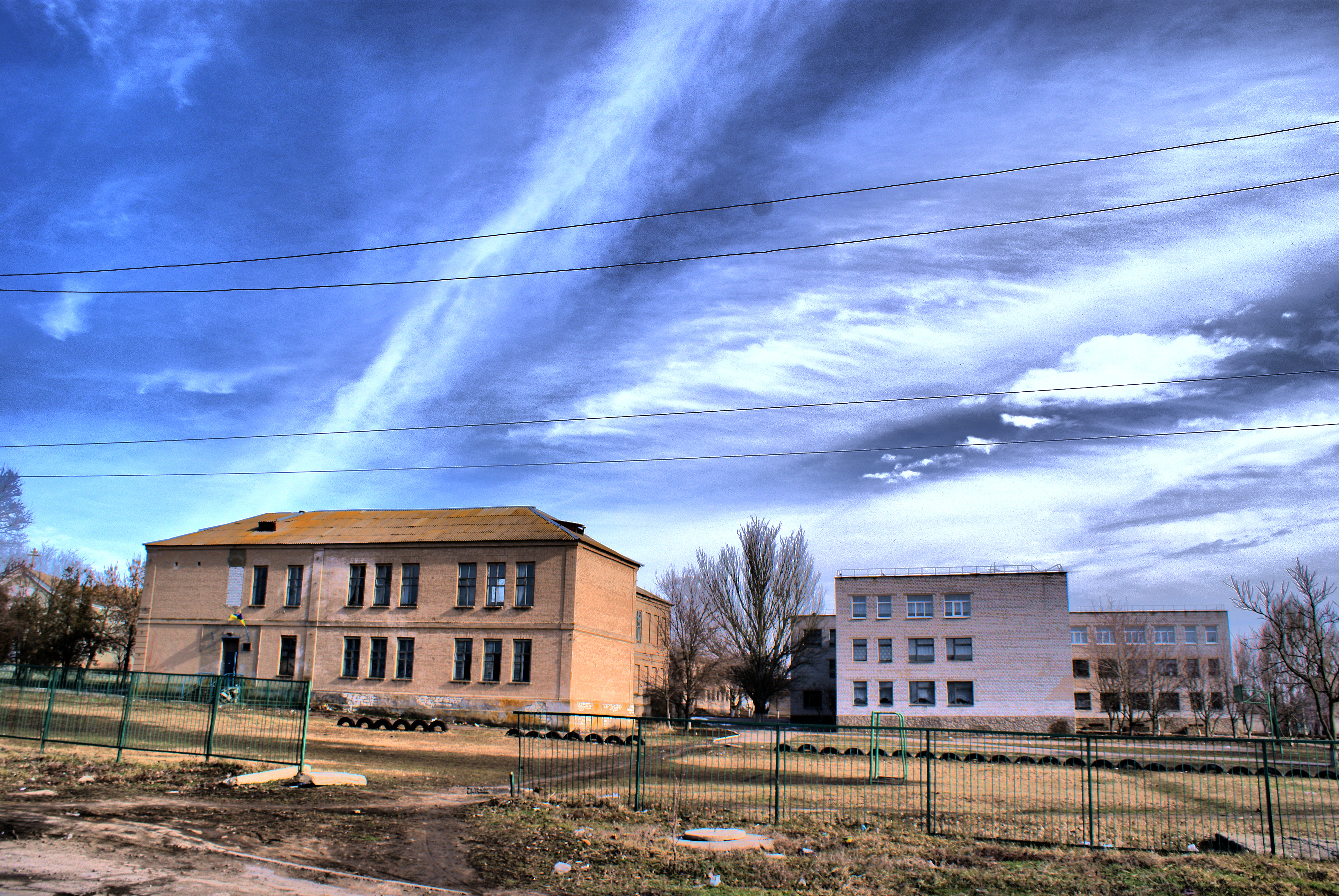 Chernigovka. Image made after a dinner on February 25, 2009. Not processed in Photoshop. The picture has been made in the expanded dynamic range